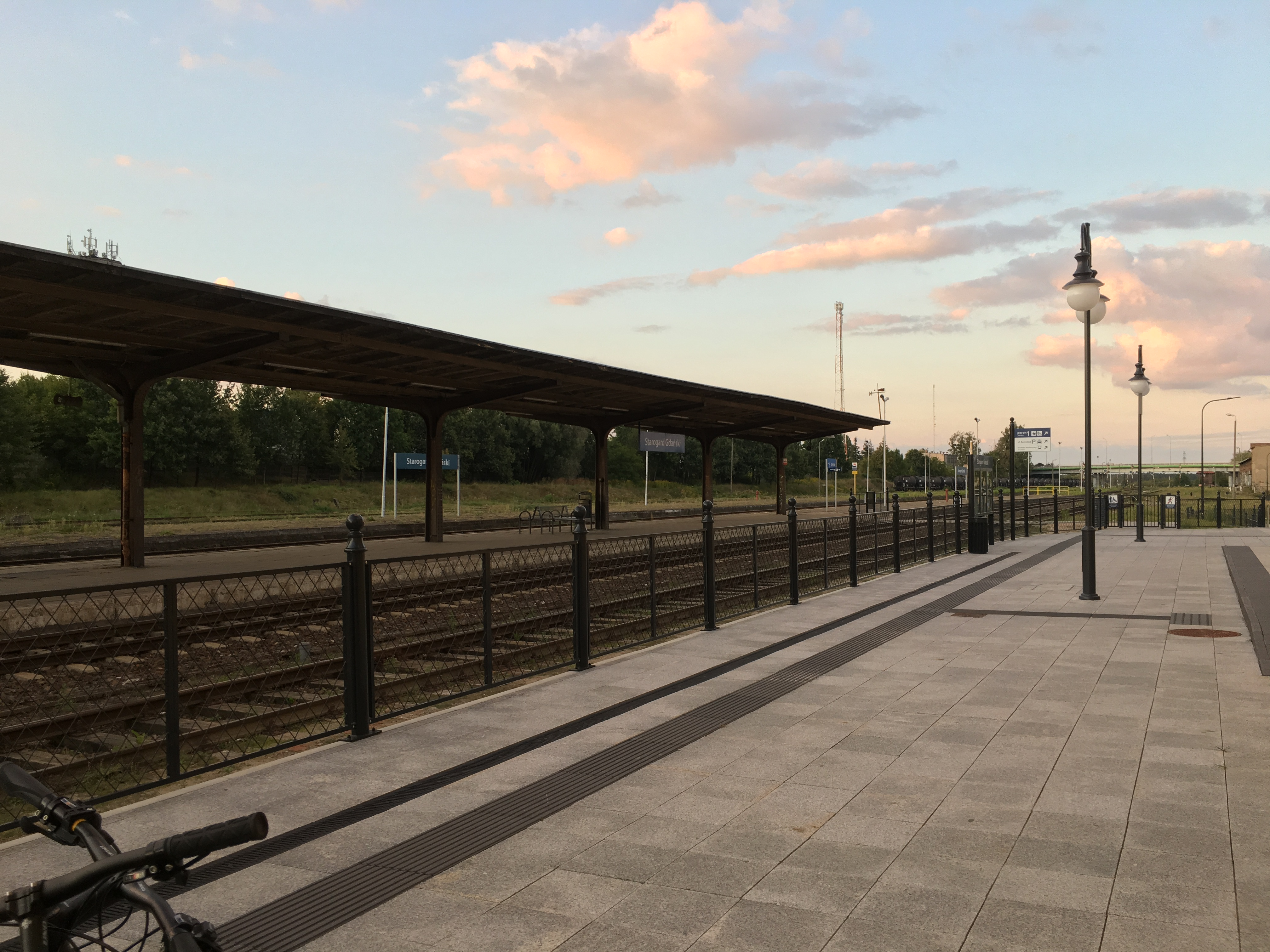 Starogard Gdański Train Station – Railway Platforms